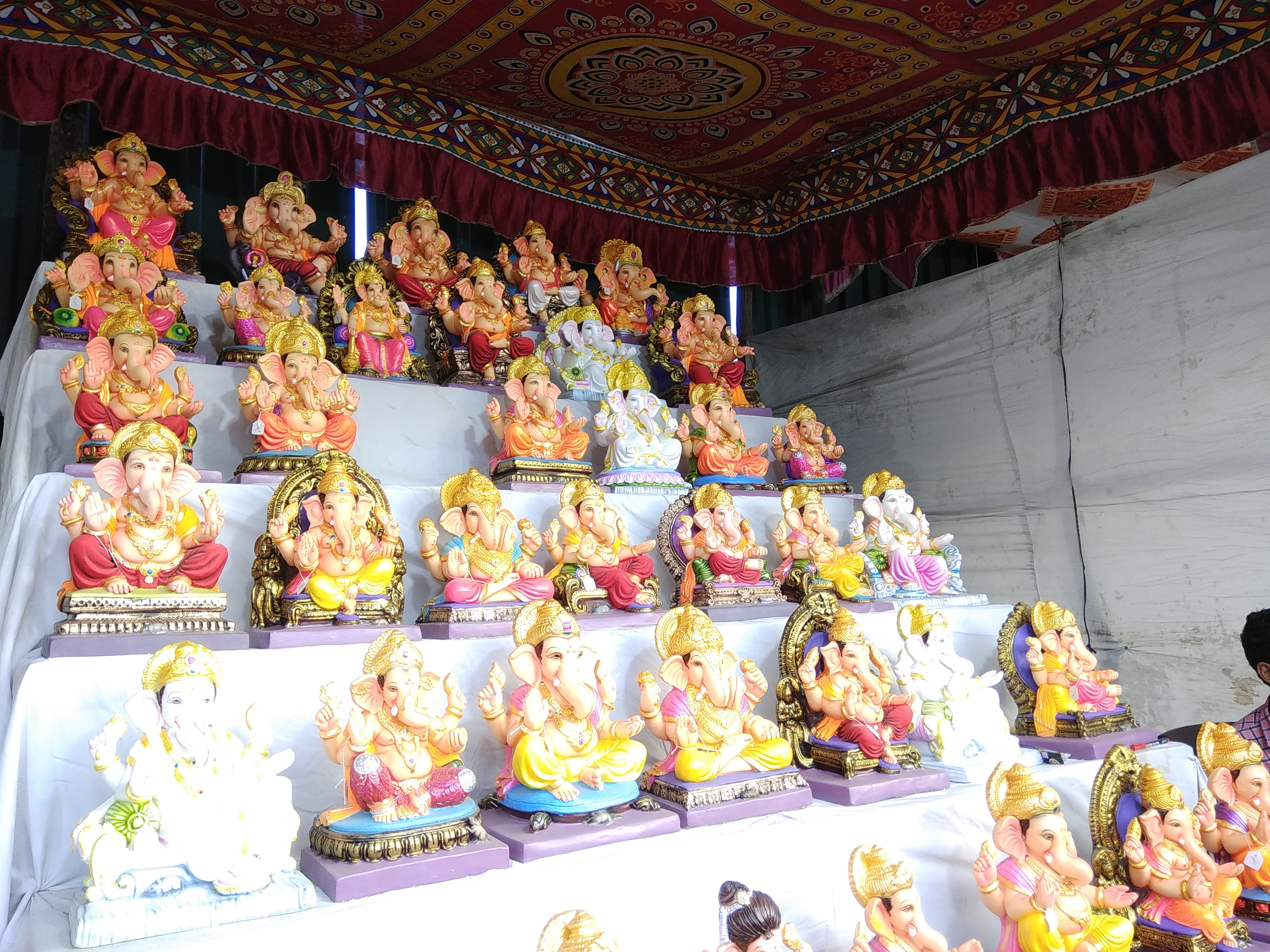 Stall for selling of ganesh idols